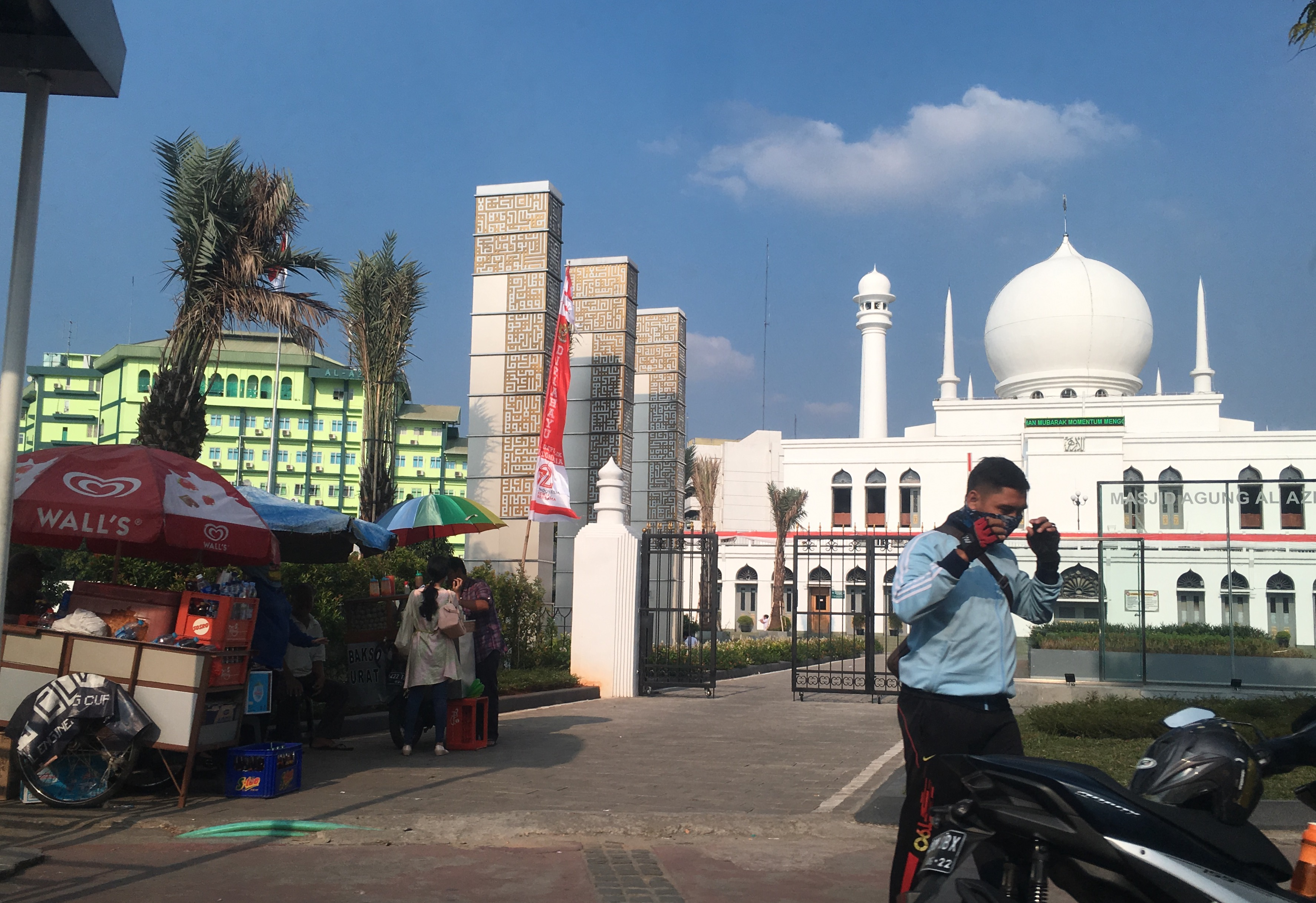 Al Azhar mosque in Jakarta